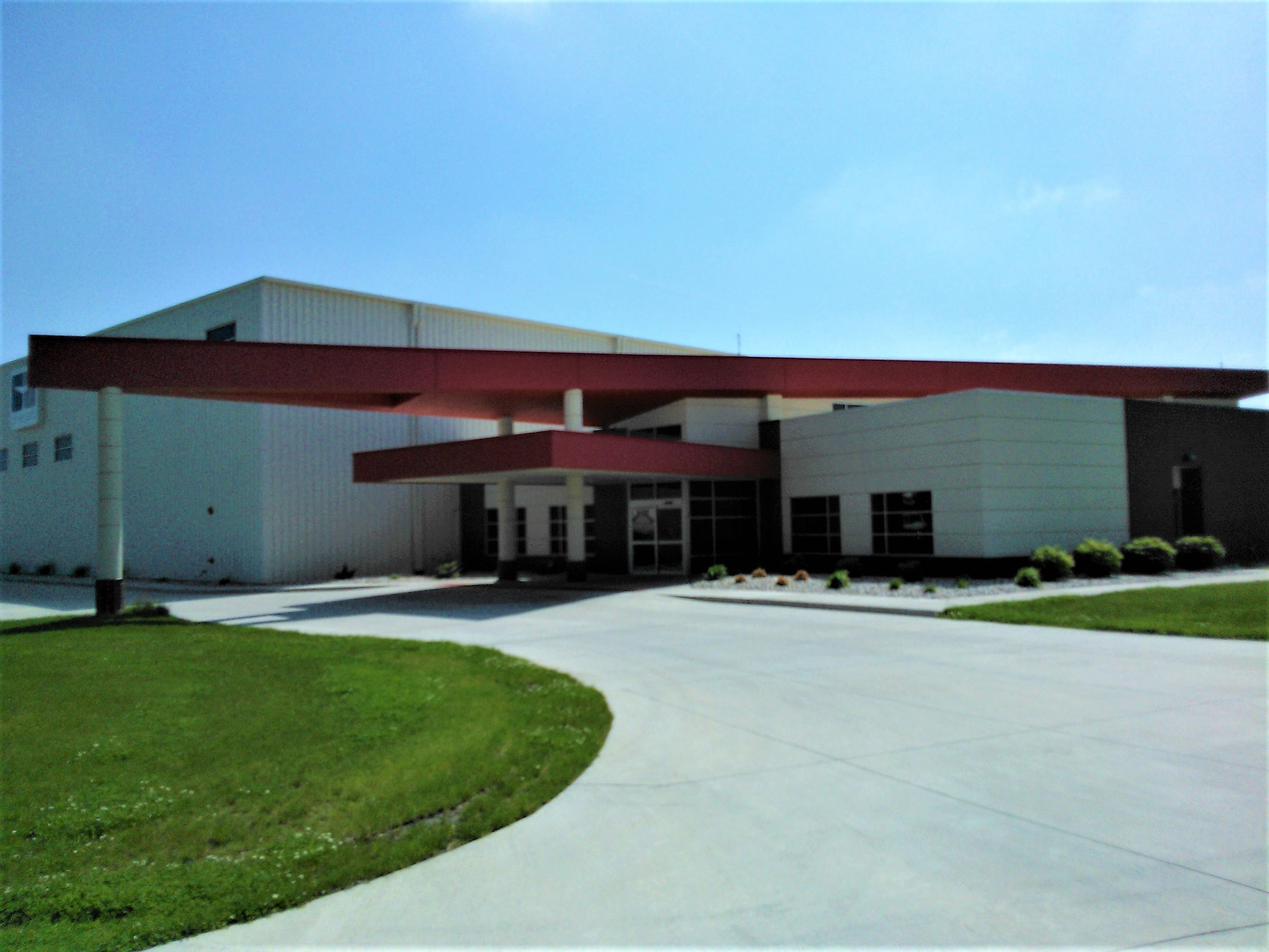 Terminal for the Davenport Municipal Airport in Iowa looking south.